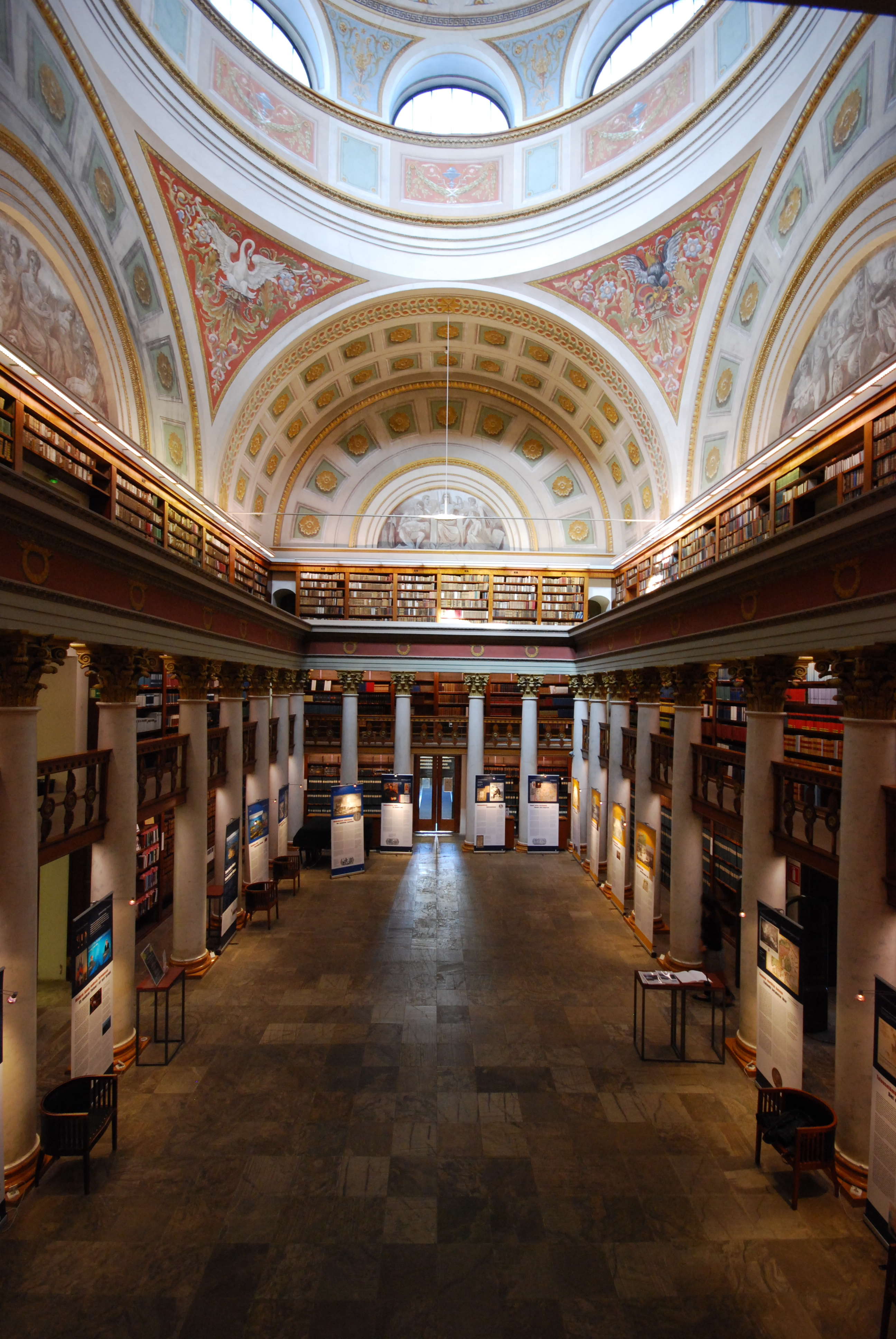 From The National Library of Finland, Helsinki, Finland